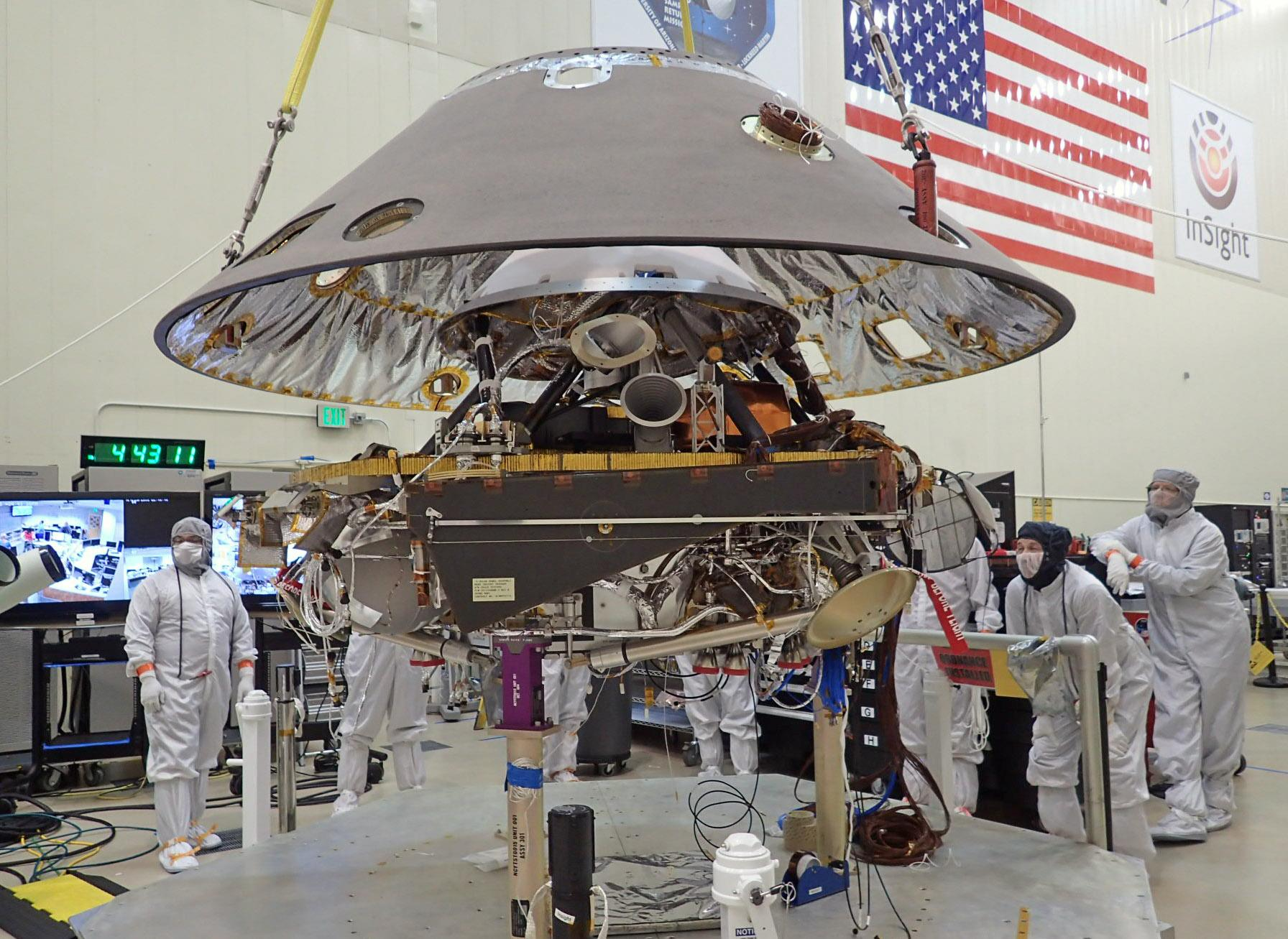 PIA19666: Lowering Back Shell onto Stowed InSight Lander In this photo, the back shell of NASA's InSight spacecraft is being lowered onto the mission's lander, which is folded into its stowed configuration. The back shell and a heat shield form the aeroshell, which will protect the lander as the spacecraft plunges into the upper atmosphere of Mars. The photo was taken on April 29, 2015, in a spacecraft assembly clean room at Lockheed Martin Space Systems, Denver. InSight, for Interior Exploration Using Seismic Investigations, Geodesy and Heat Transport, is scheduled for launch in March 2016 and landing in September 2016. It will study the deep interior of Mars to advance understanding of the early history of all rocky planets, including Earth. The InSight Project is managed by NASA's Jet Propulsion Laboratory, Pasadena, California, for the NASA Science Mission Directorate, Washington. InSight is part of NASA's Discovery Program, which is managed by NASA's Marshall Space Flight Center in Huntsville, Alabama.